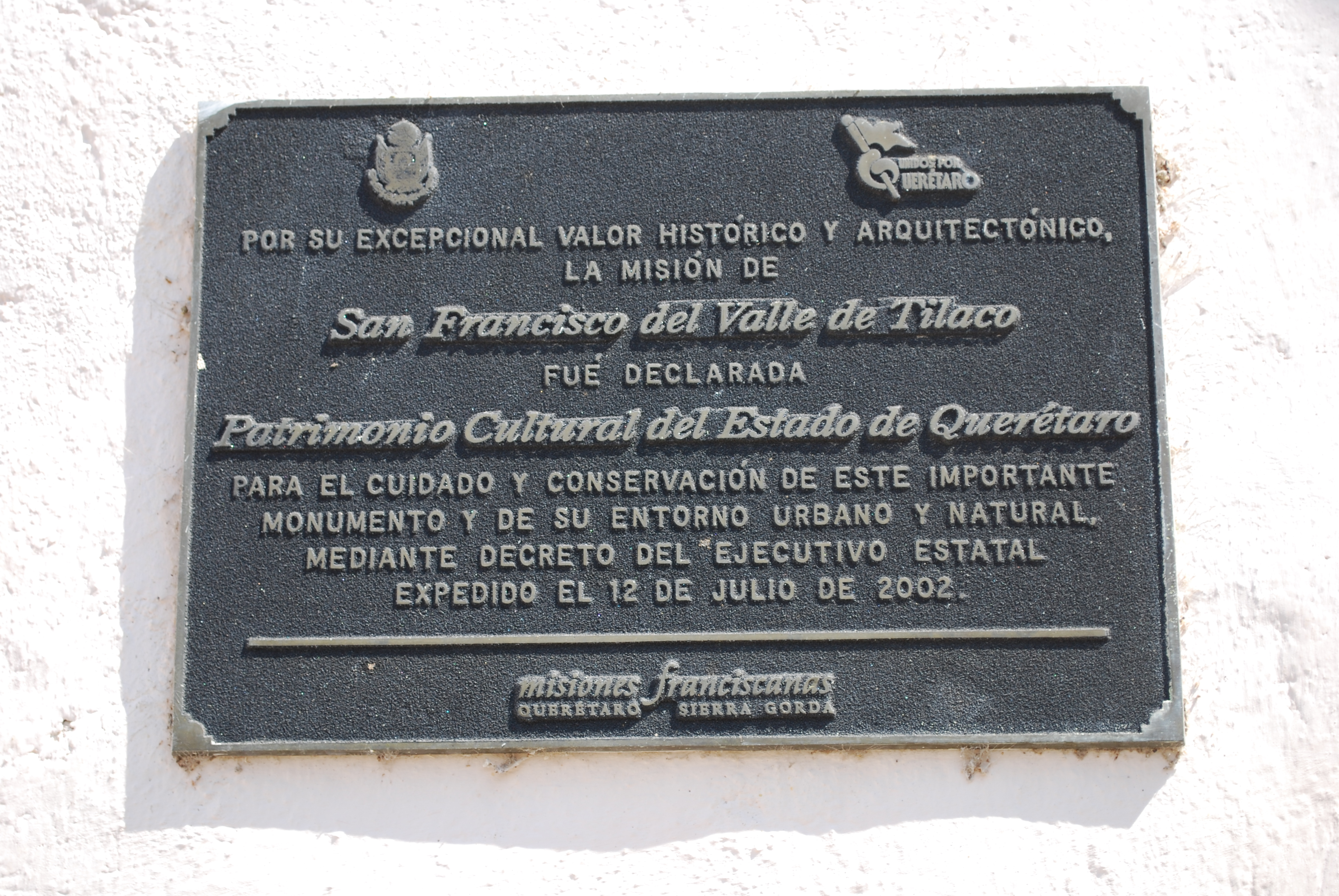 Plaque inscribing the Tilaco mission as a Cultural Heritage Site of the state of Querétaro. In Tilaco, Landa de Matamoros, Querétaro, Mexico